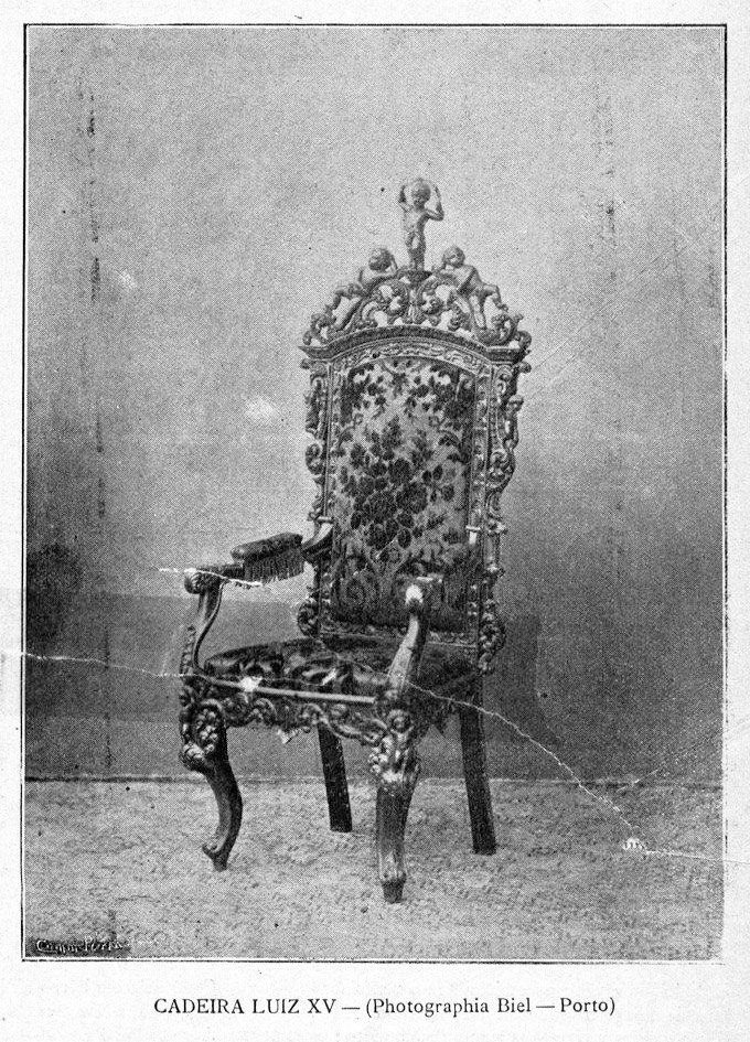 "Chair Louis Quinze"Cadeira Luiz XV - (Fotografia Biel - Porto)